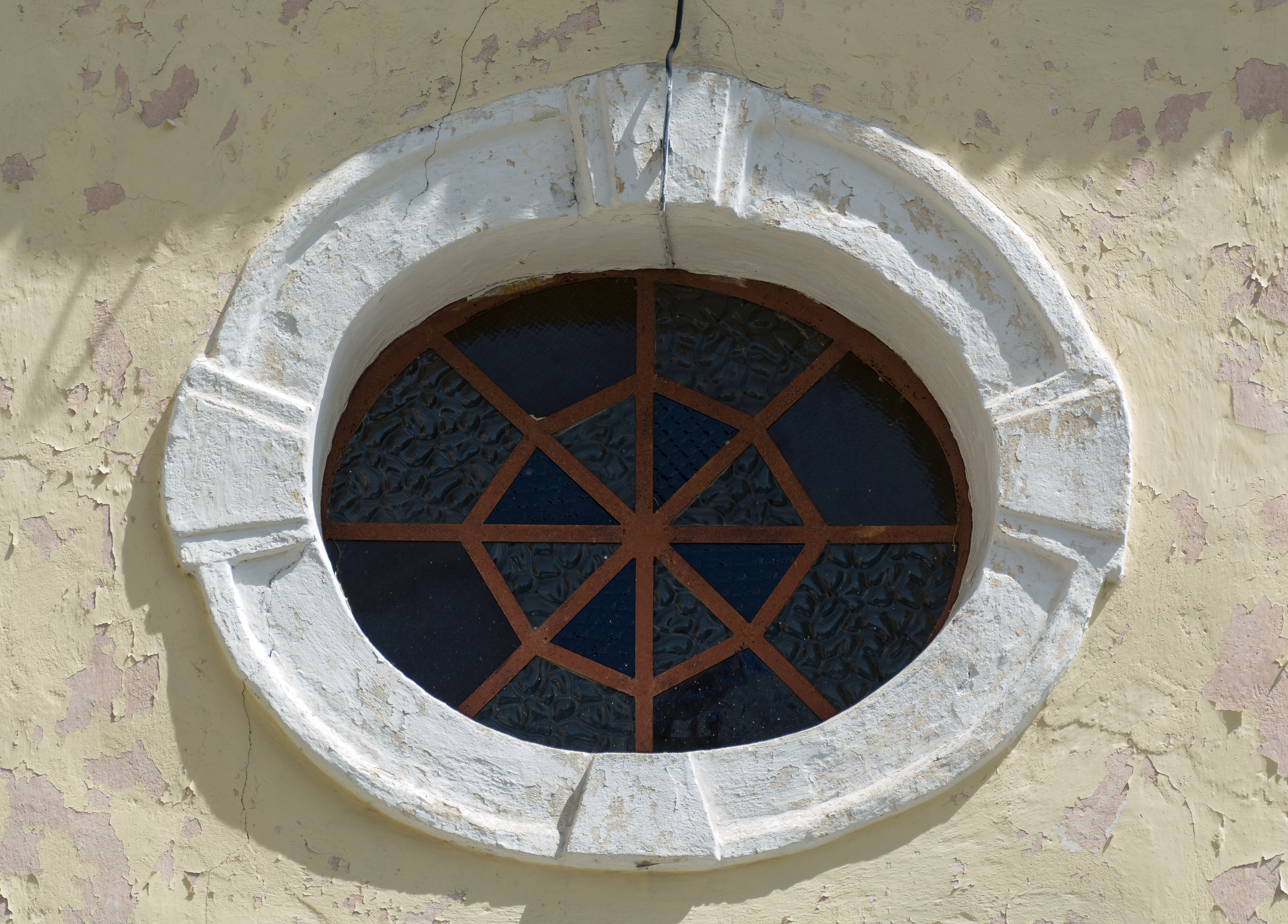 Saint Francis Xavier chapel in Gorzanów